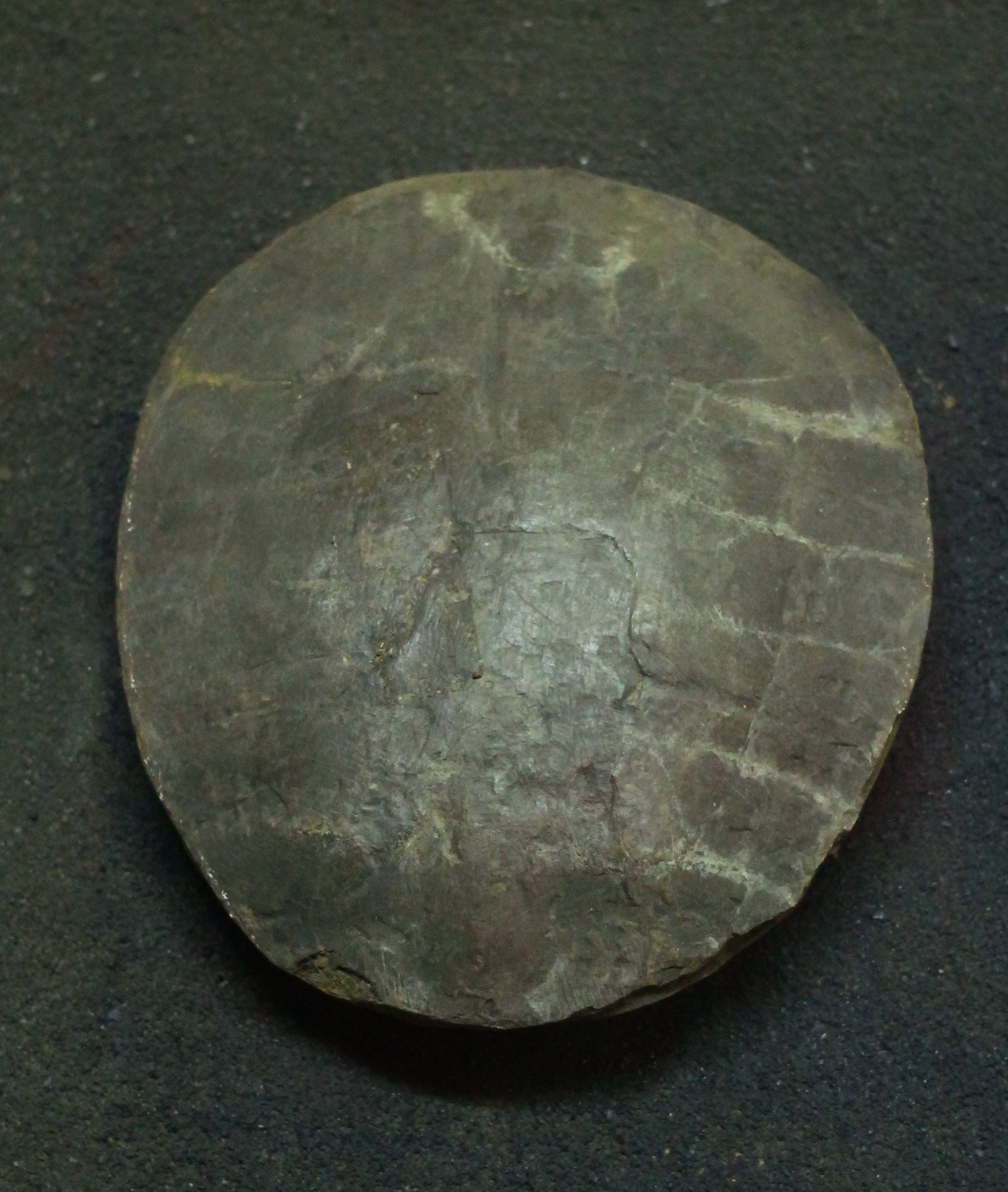 Cropped image of taxon in file name